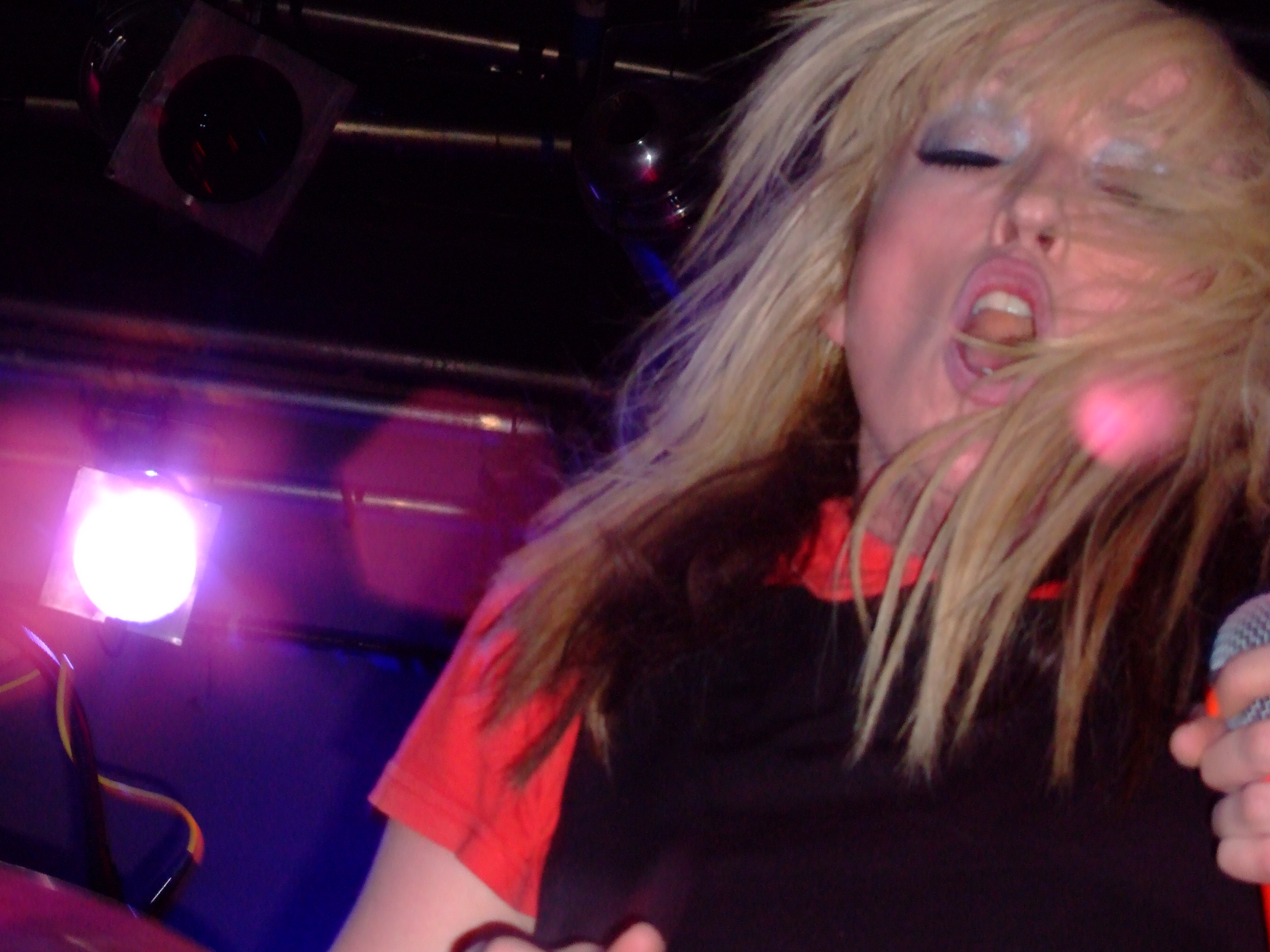 The Ting Tings at ULU, London, 16 April 2008